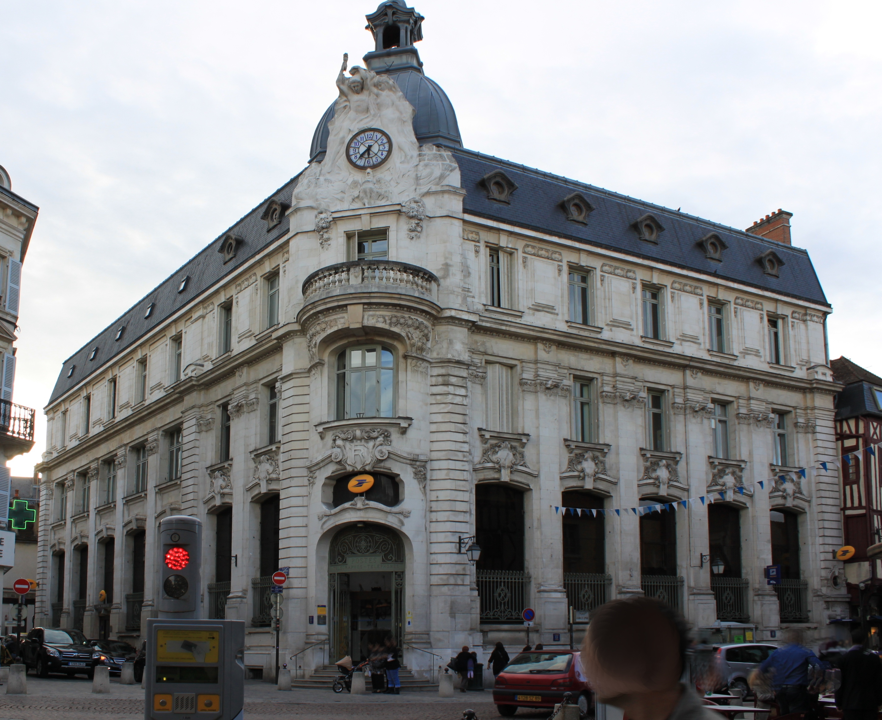 Post office, Auxerre, Burgundy, FRANCE